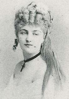 Méry Laurent †1900 french actress